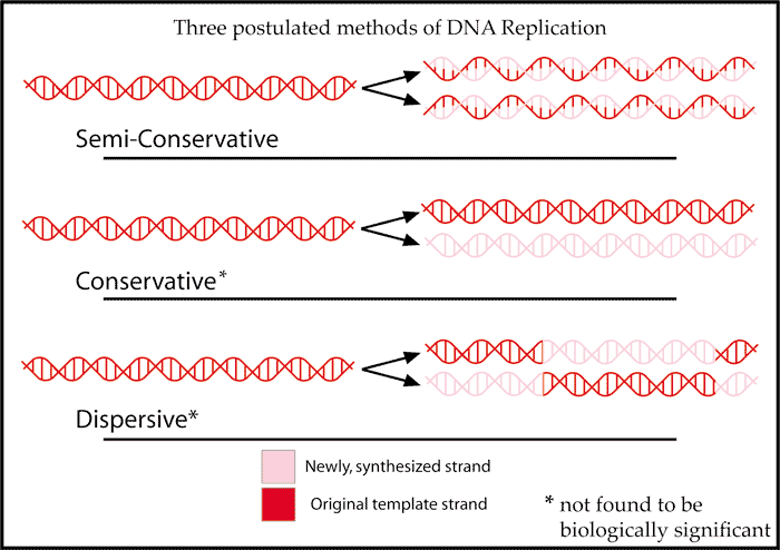 An overview of three postulated types of DNA replication. Original work for Wikipedia by Mike Jones User: Adenosine